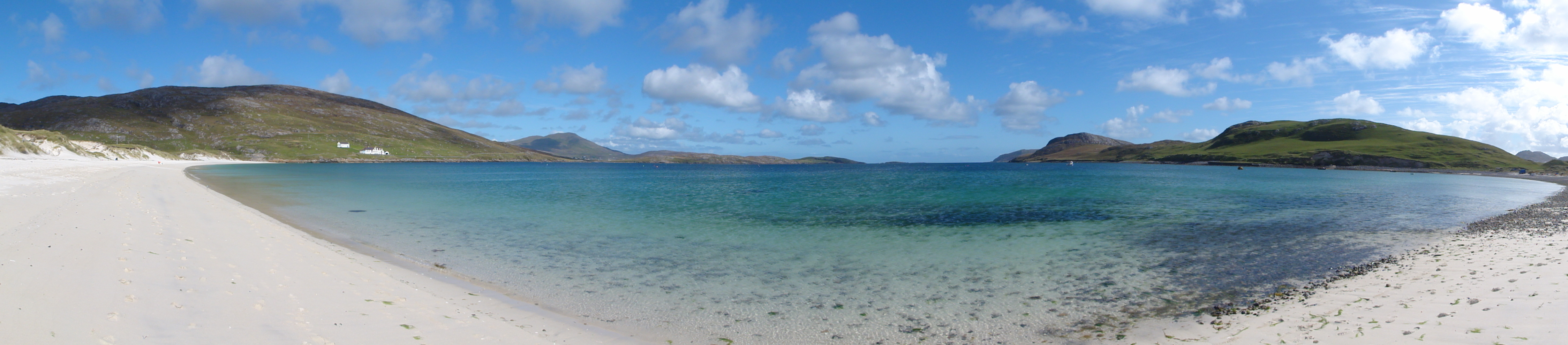 Photographs taken at Vatersay.